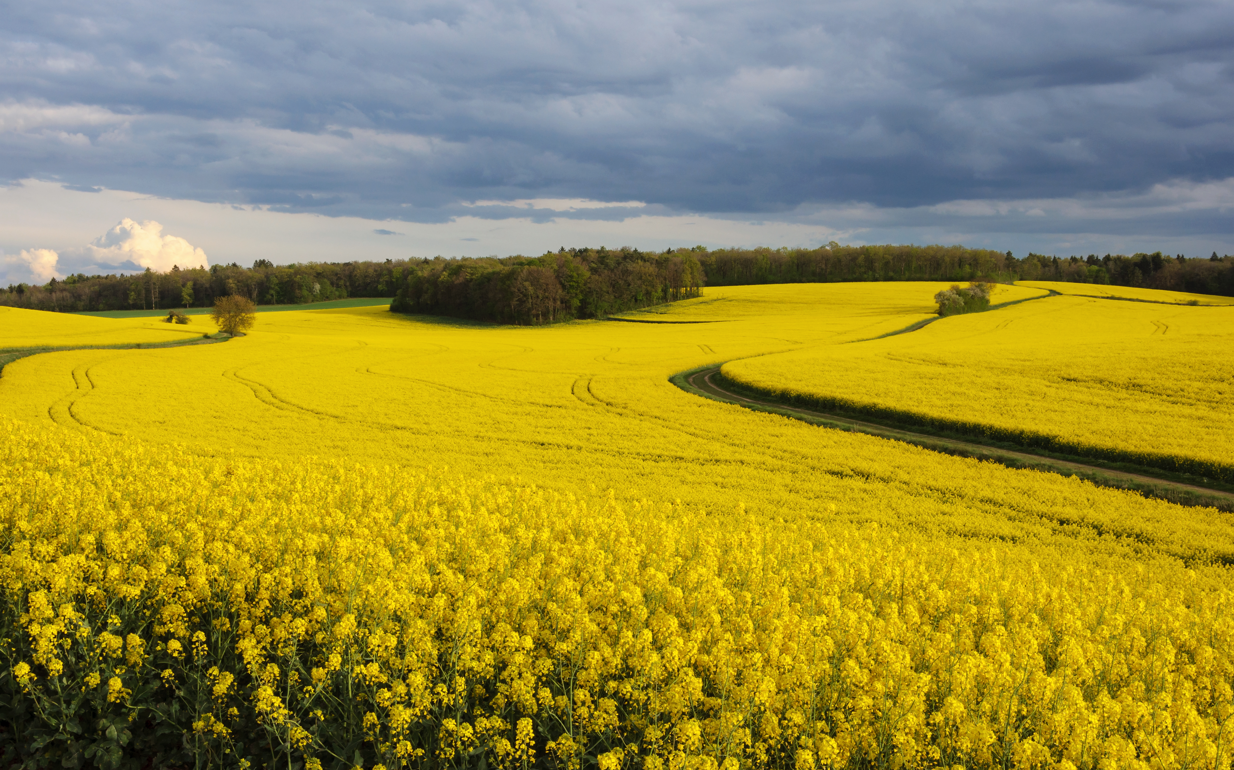 Rapeseed field near Planay, Côte-d'Or department, Burgundy, France.